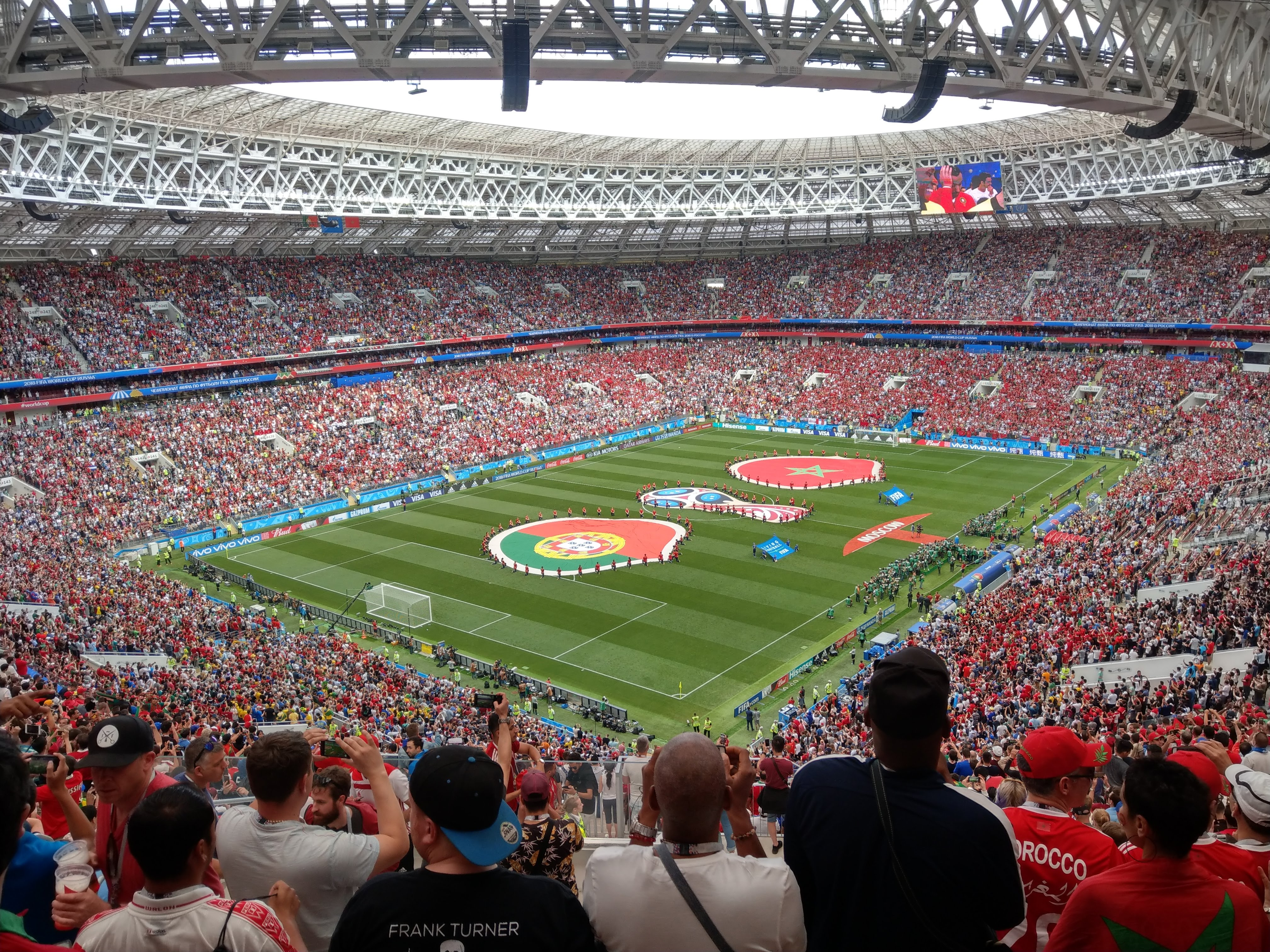 Portugal-Marocco